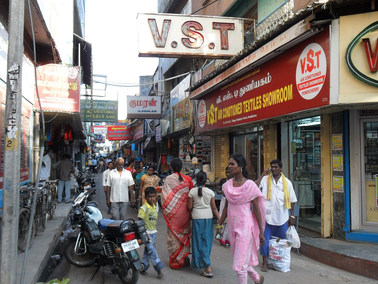 A girl in pink wearing salwar kameez, Tamil Nadu, India